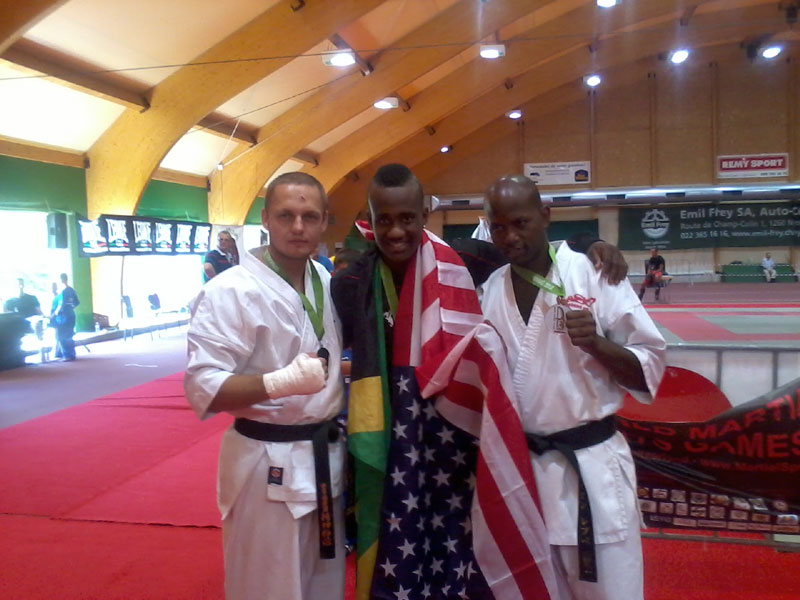 Sikoński Maciej wmag worlds